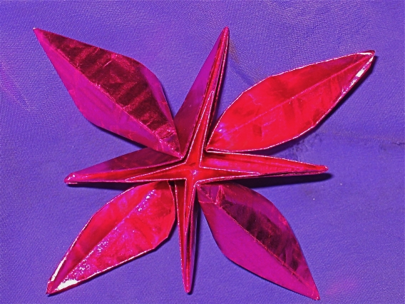 Origami design called "Shining Alice" designed by Michael Shall